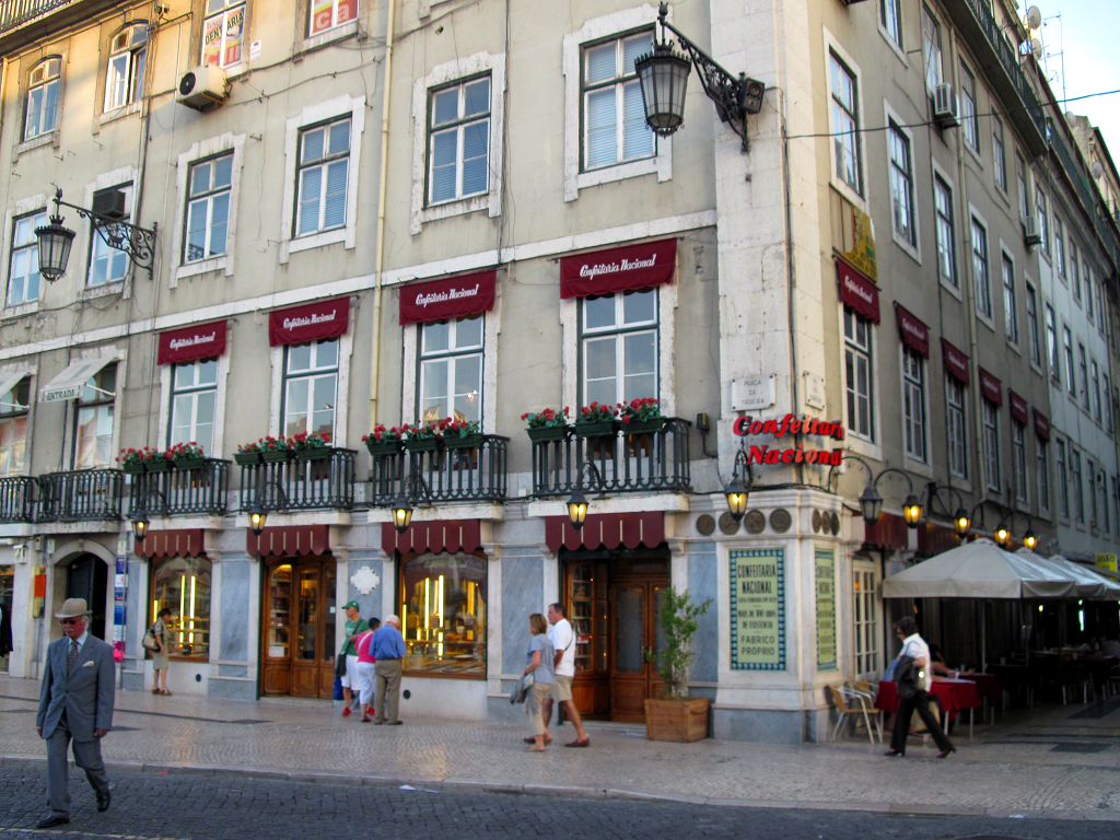 The façade of the Confeitaria Nacional, a sweetshop in Praça da Figueira, Lisbon.